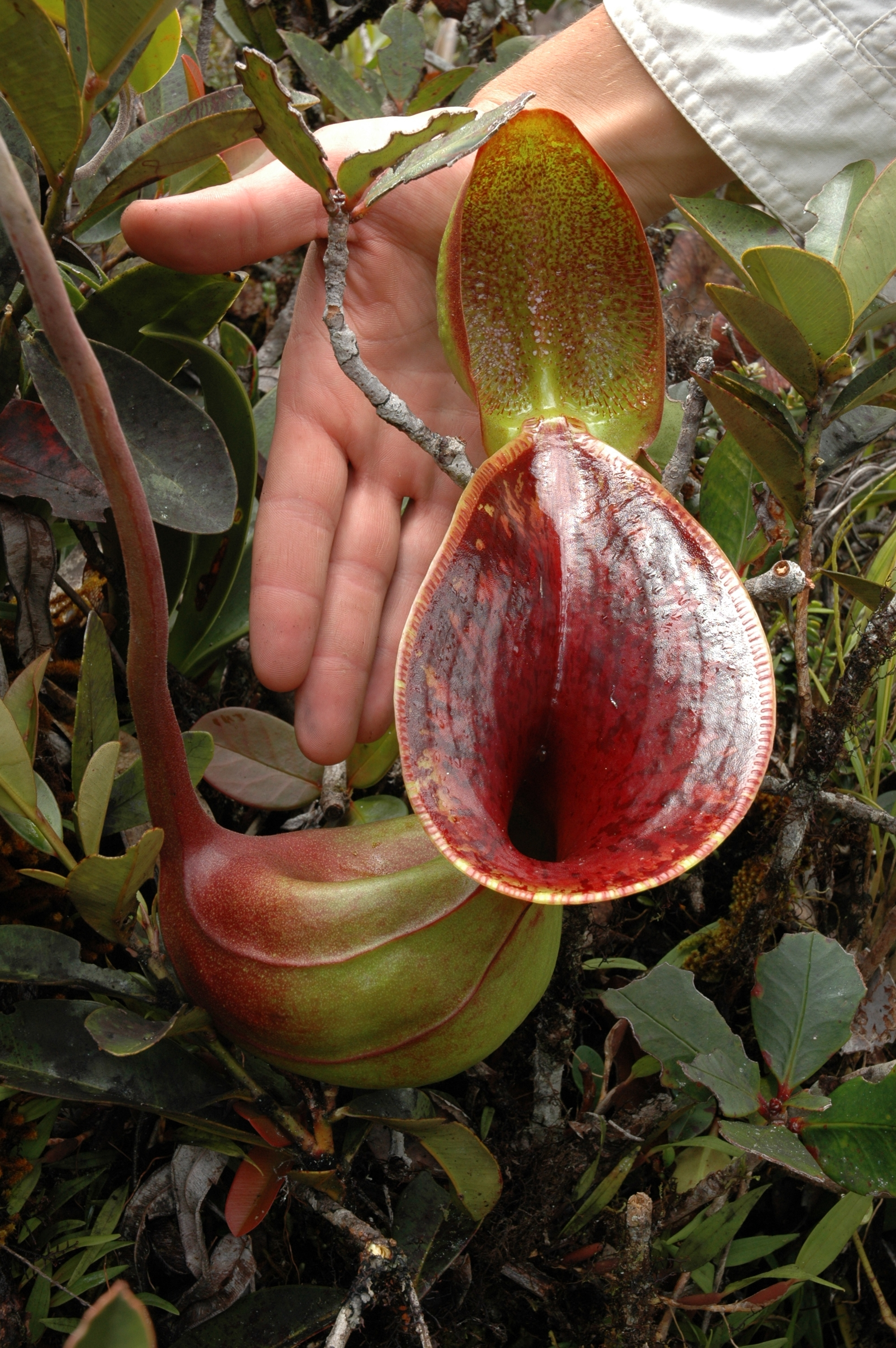 Nepenthes lowii Gunung Murud by Jeremiah Harris